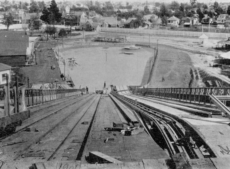 A birdseye view of the Washington Gardens Amusement Park from the top of the Chutes water ride. Park is located at the southwest corner of Main and Washington in Los Angeles.